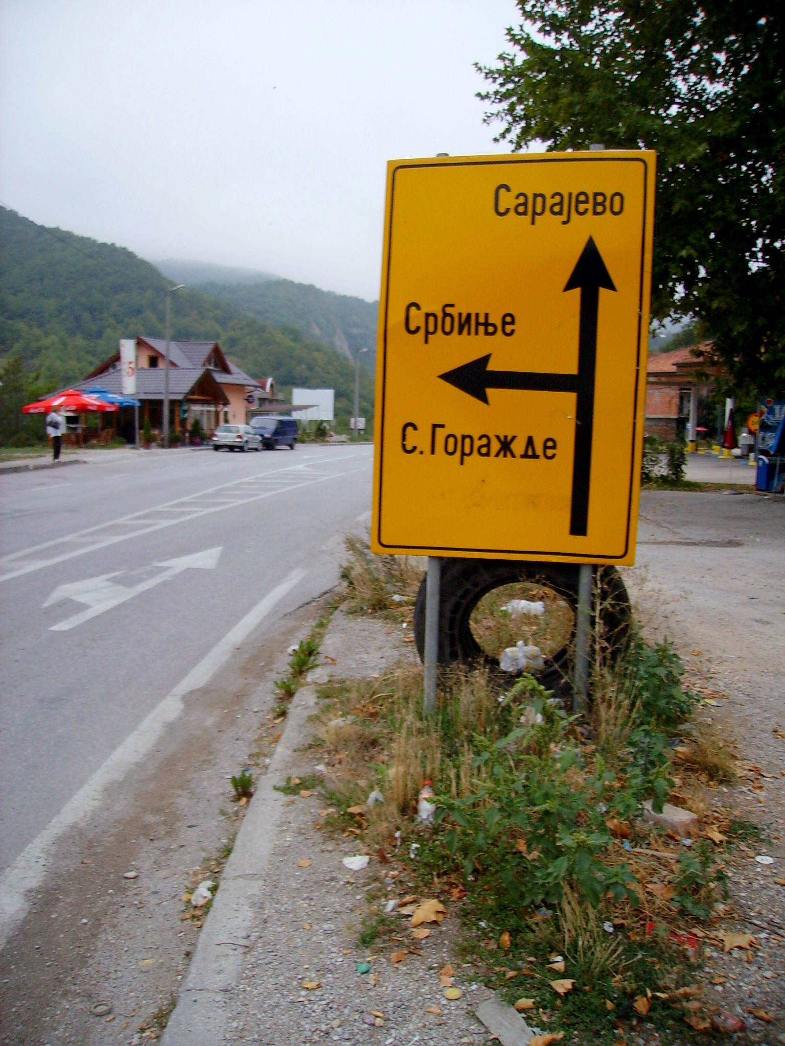 Direction road sign in Ustiprača, East Bosnia. Bearing the Serbian names Srbinje (for Foča) and Srpsko Goražde (for Ustiprača), which were prohibited by the Constitutional Court in 2004.